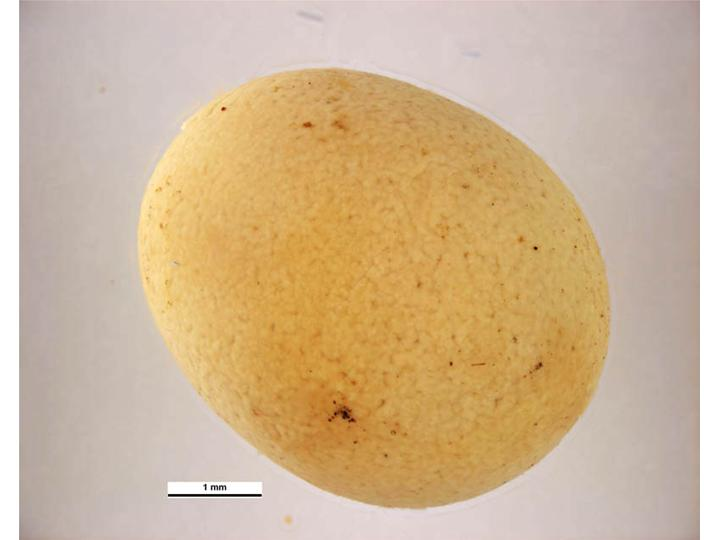 Photo of an egg of Achatina fulica.